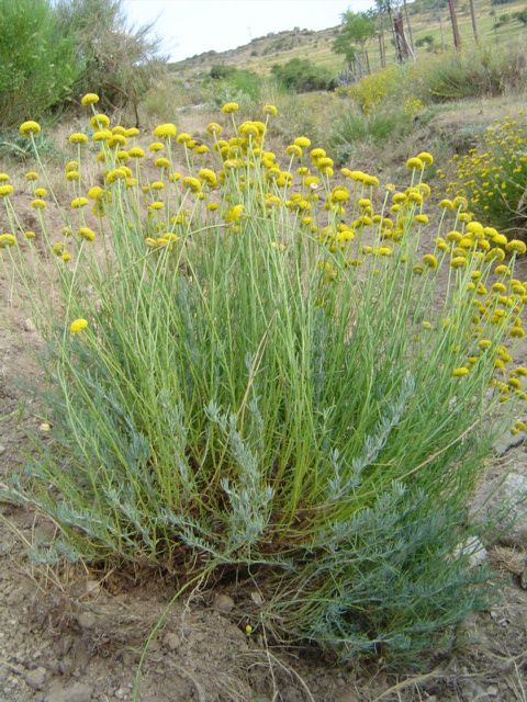 Green lavender cotton (Santolina rosmarinifolia), Amblés Valley, Ávila province, Spain.